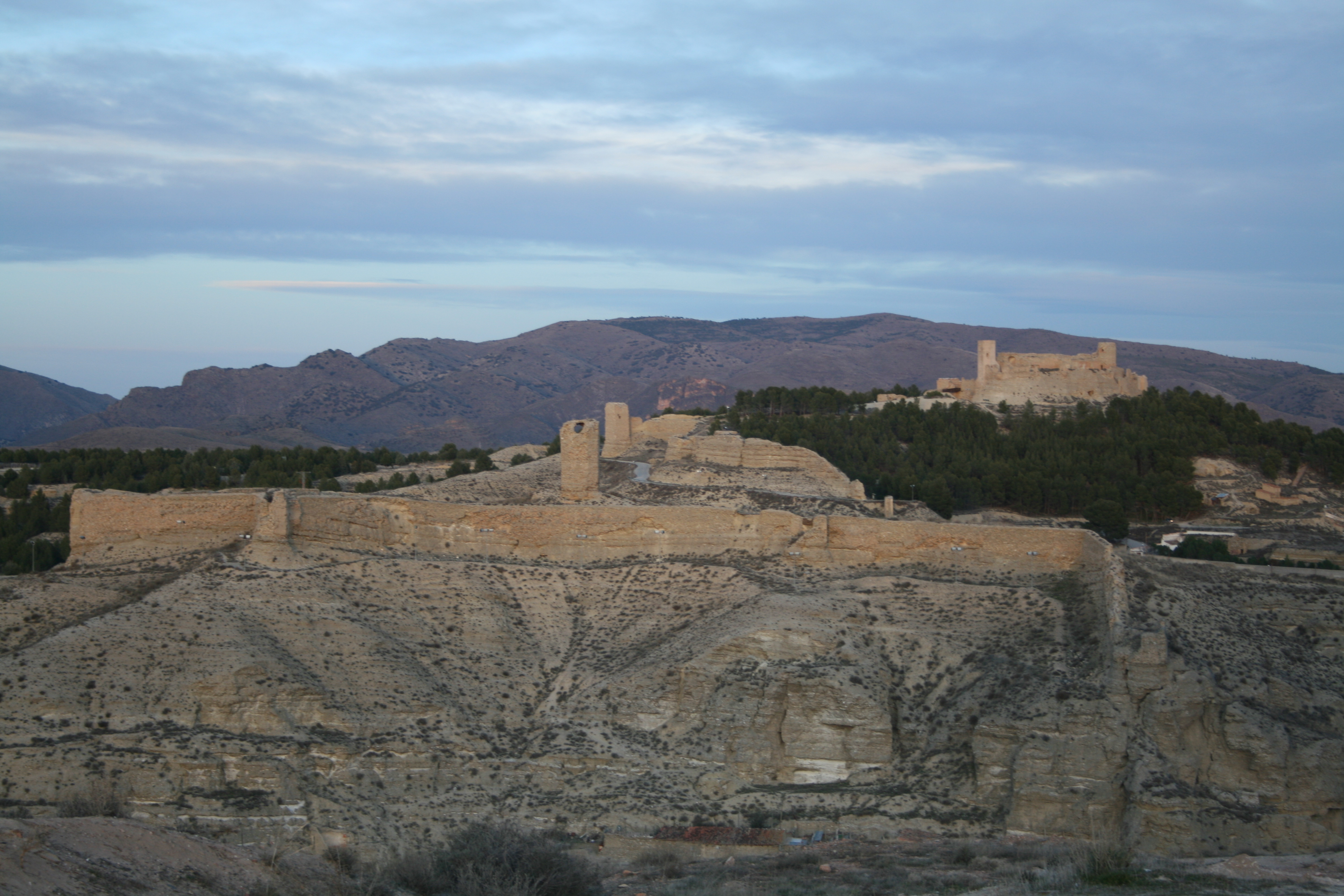 Castle of Ayyub, Calatayud, Spain